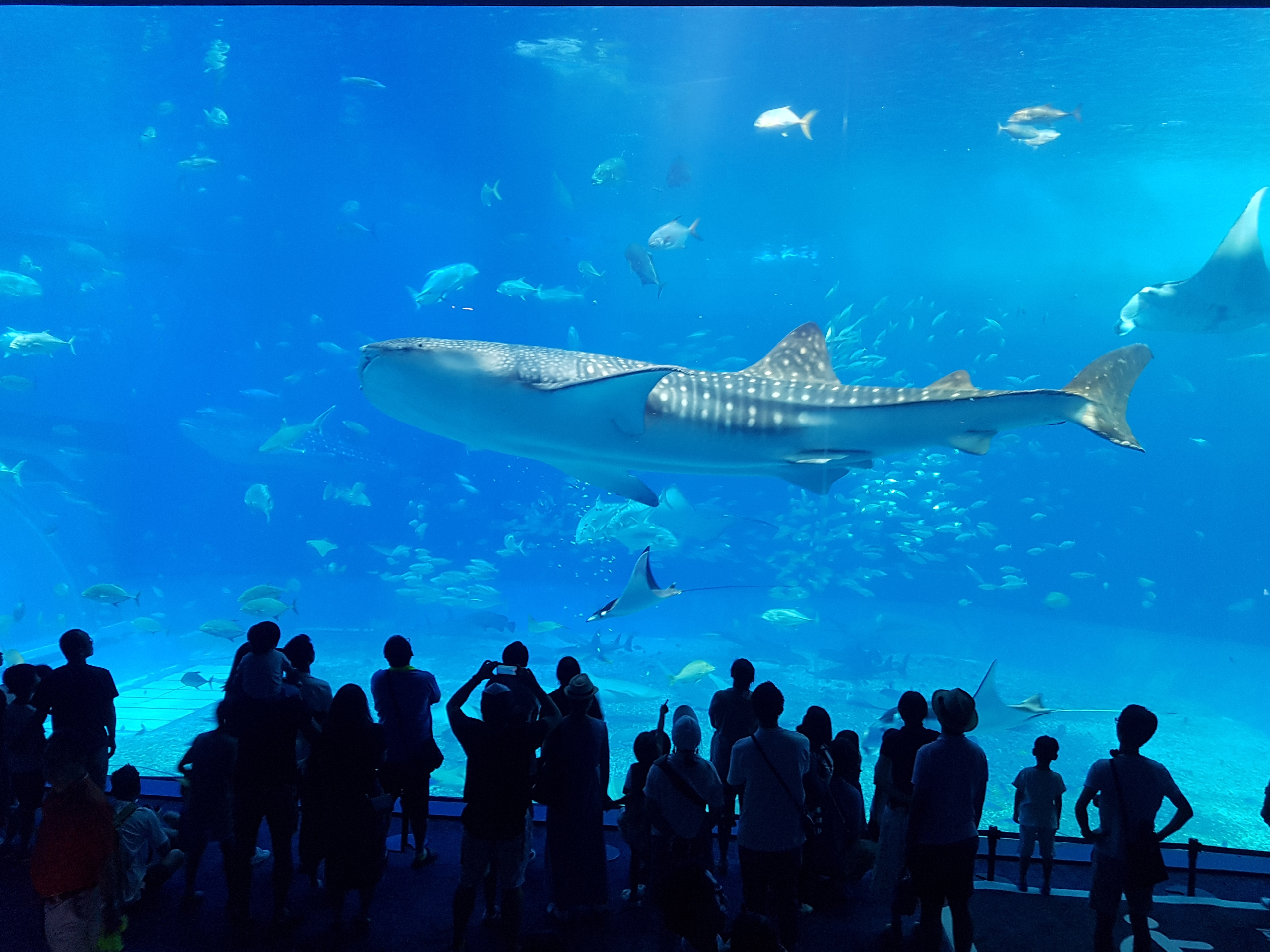 Churauma Aquarium, Okinawa, Japan